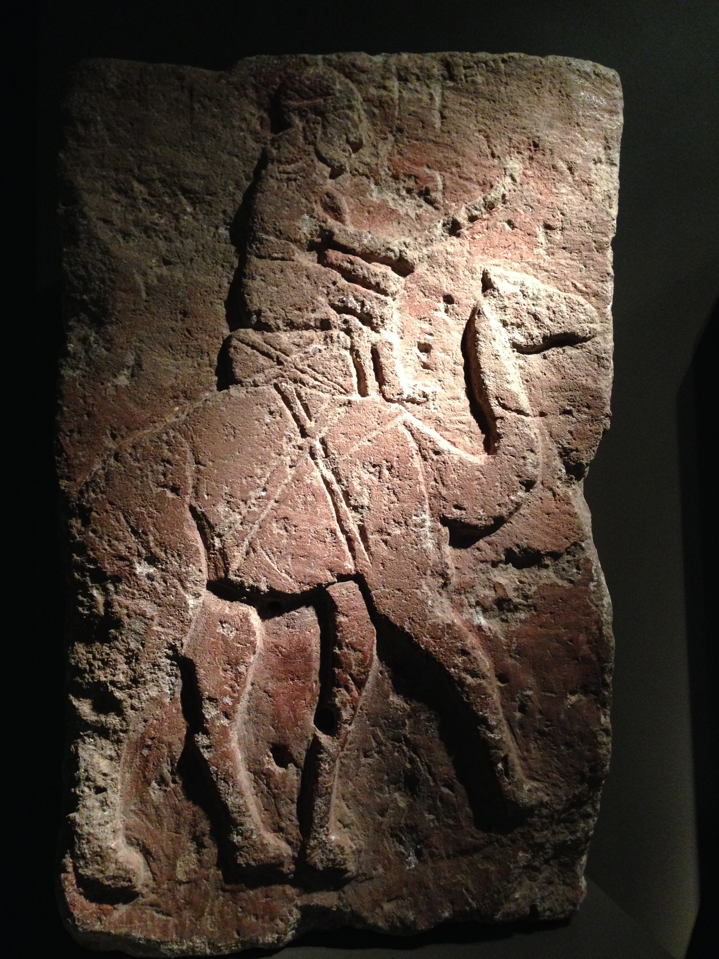 Museum Description: "This relief was excavated in northern Syria at the site of Tell Halaf, the capital of a small independent city-state known as Guzana to the Assyrians, who conquered it in the late 9th century BC. More than two hundred such stone reliefs (called orthostats) decorated the façade of a temple-palace built in the 10th century BC by a local ruler named Kapara. He reused the blocks from one or more pre-existing structures and carved an inscription in cuneiform on each one that states, "Palace of Kapara, son of Hadianu." The blocks were placed so that limestone ones painted red alternated with others of black basalt. While the human images have been depicted in the less sophisticated, local style, many of the animal reliefs, such as the goat, may have been modeled on finely carved ivories imported from northern Syria and Phoenicia that were found at the site. A rider perches atop the hump of a dromedary camel, urging it on with a staff. Crossed bands securely fasten the saddle onto the animal. The curving neck, rounded body, and unevenly placed hooves re-create the rocking sensation of a camel in motion. This image represents an Arabic caravan trader. From the beginning of the 1st millennium BC the domestication of dromedaries made the caravan trade possible. This relief from Guzana may be the earliest representation of such a dromedary rider. There are traces of King Kapara's inscription on the top edge of the stone."